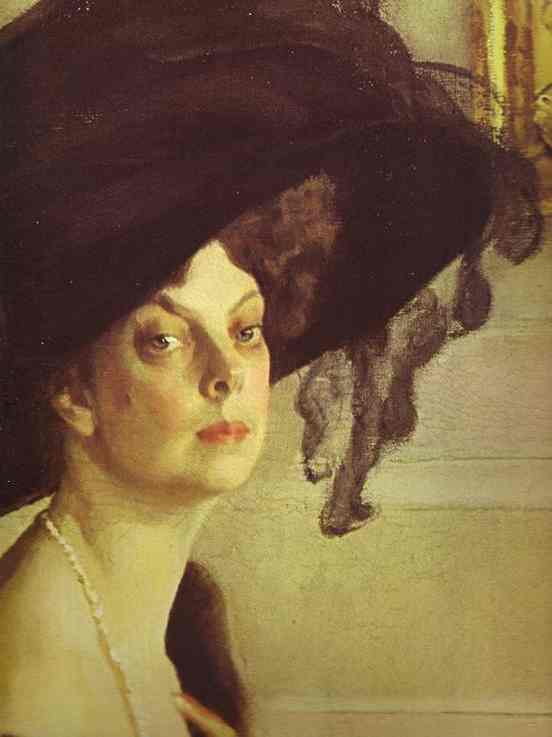 Portrait of Princess Olga Orlova. Detail. 1911. Tempera on canvas. The Russian Museum, St. Petersburg, Russia.